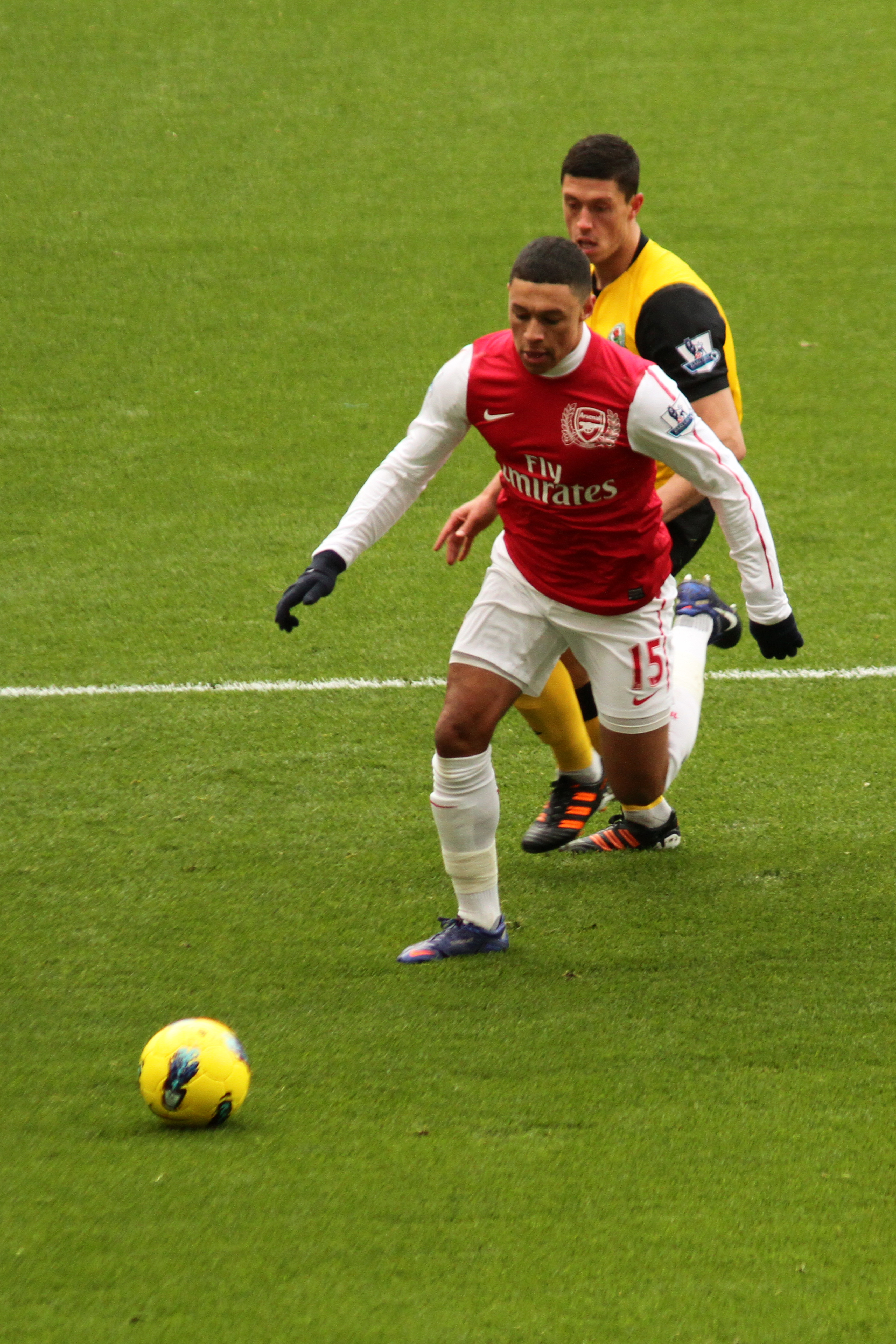 Alex Oxlade-Chaimberlain & Jason Lowe